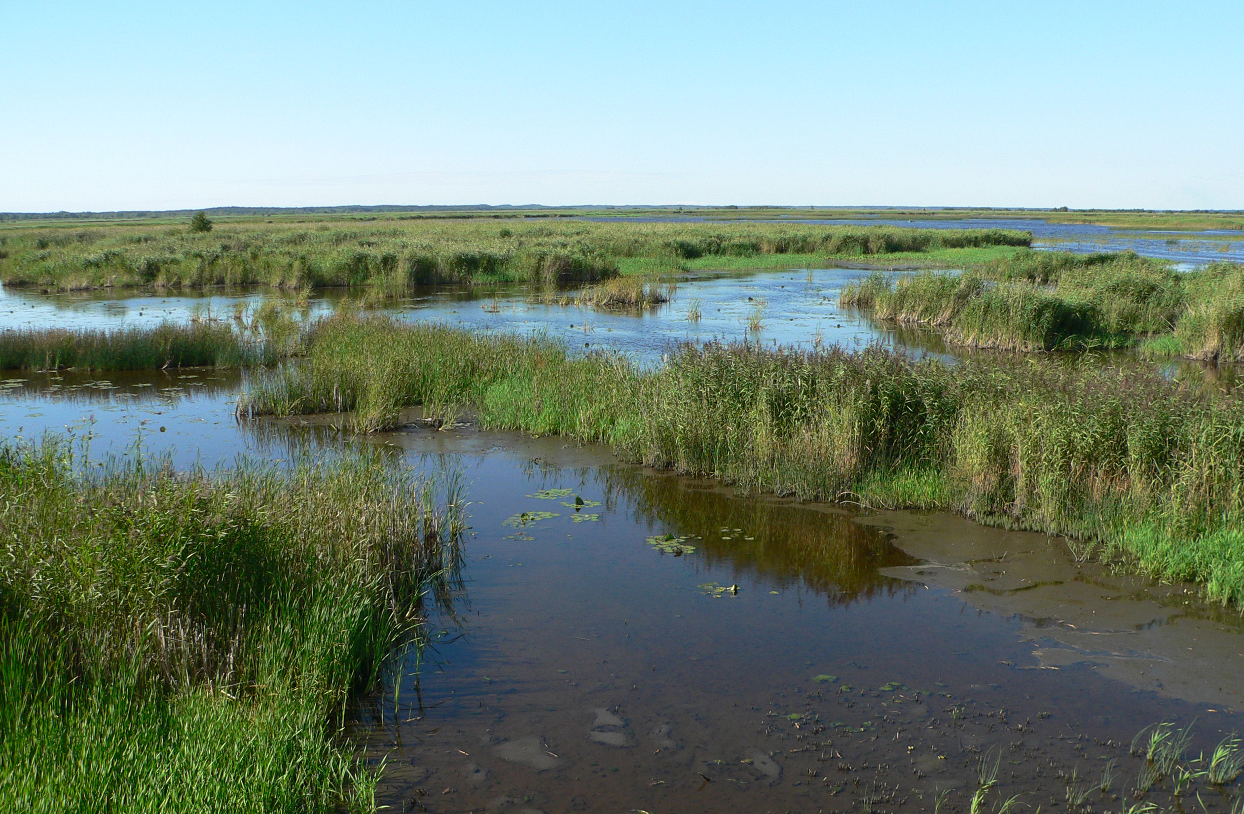 Pape lake